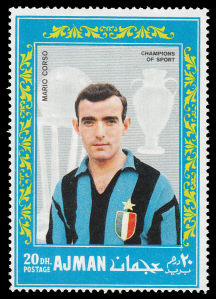 A 1968 Ajman stamp commemorating Inter Milan player Mario Corso.